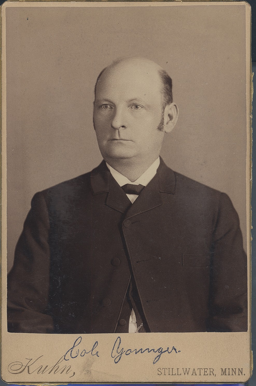 Portrait photograph taken of Thomas Coleman "Cole" Younger while he was a prisoner at the Minnesota State Prison ca. 1889